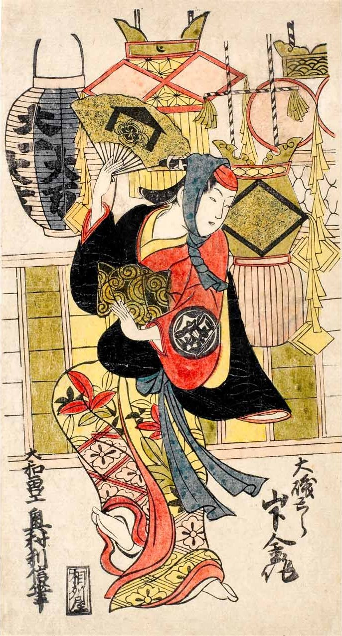 Actor Yamashita Kinsaku I as Tora Gozen hand-colored woodblock print by Okumura Toshinobu, mid 1720s, Honolulu Museum of Art